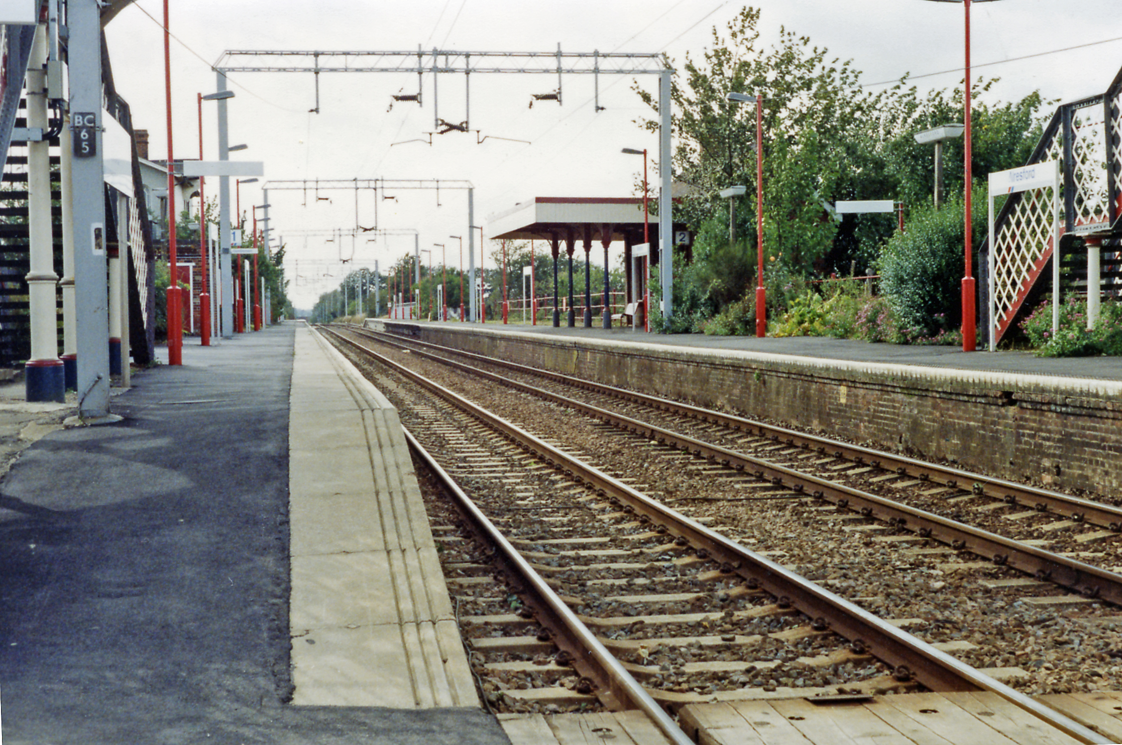 Alresford (Essex) station. View eastward, towards Wivenhoe and Colchester: ex-GER Colchester - Clacton/Walton line. The lines from Colchester were electrified from 16/3/59, as a trial of the 25kV AC overhead system adopted as standard by BR in 1956, although through electric services to London (Liverpool Street) were not introduced until 17/6/63 after the main line between Chelmsford and Colchester had been converted from the original 1,500V DC system, later 6.25 kV AC, employed between London and Chelmsford.